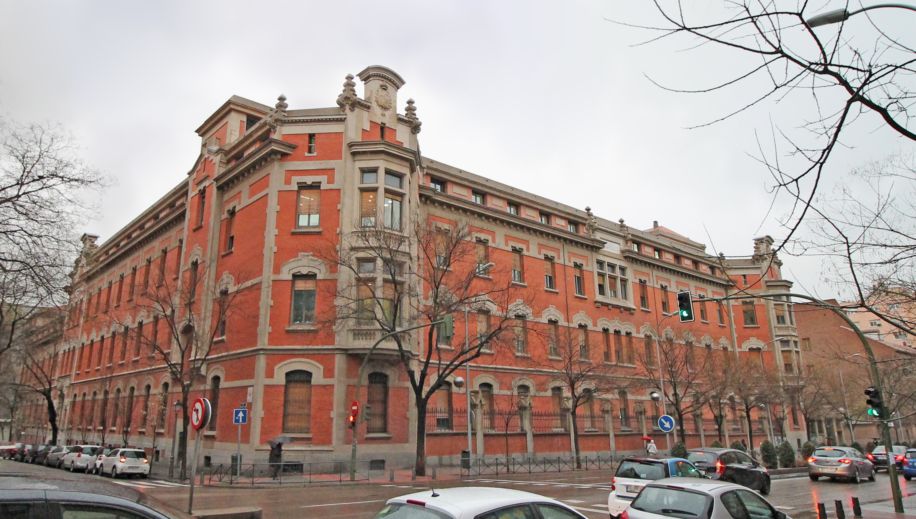 Façade of Santa Cristina University Hospital (old building) in Madrid (Spain).